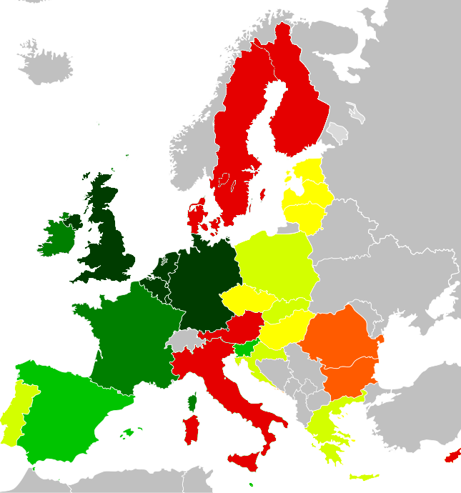 Minimum wages in the European Union 2016